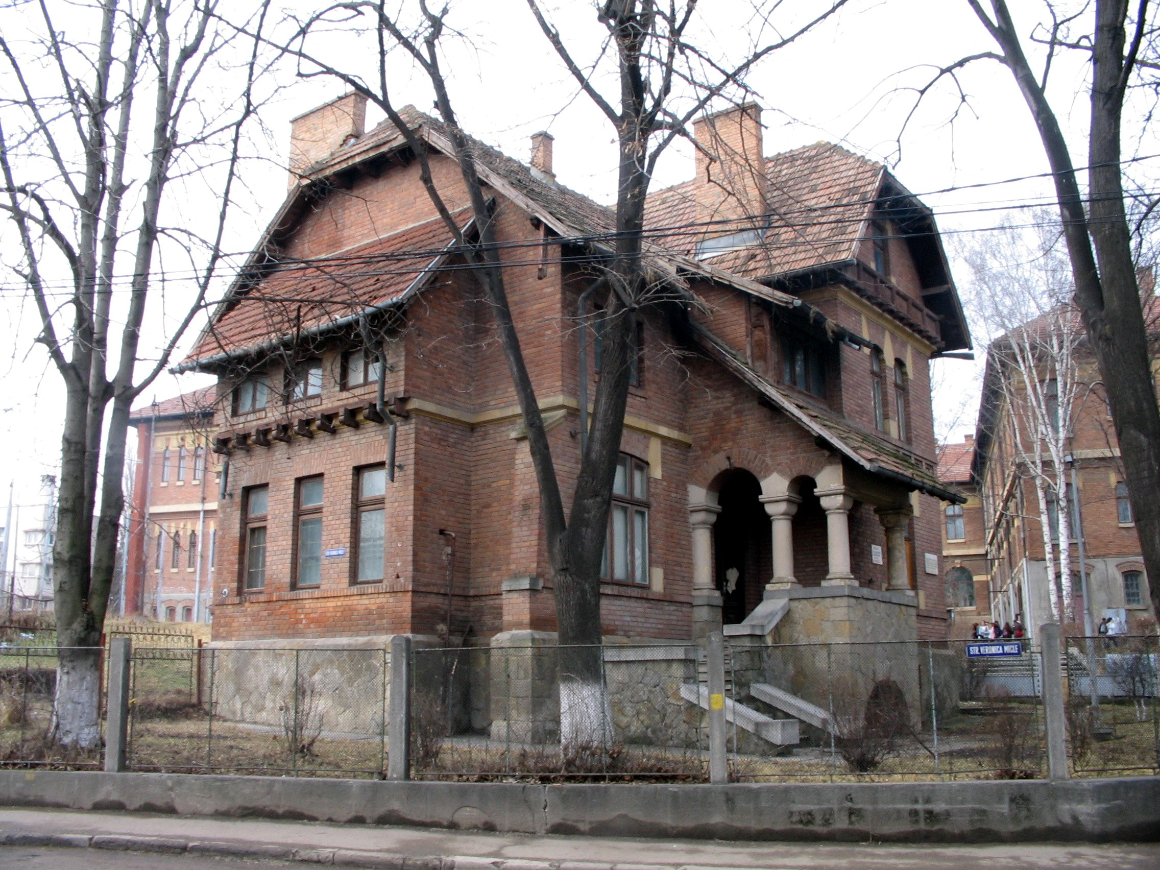 House located in Roman, Neamţ, Romania, previously owned by writer Calistrat HogaşRomână: Casa lui Calistrat Hogaş din Roman, România